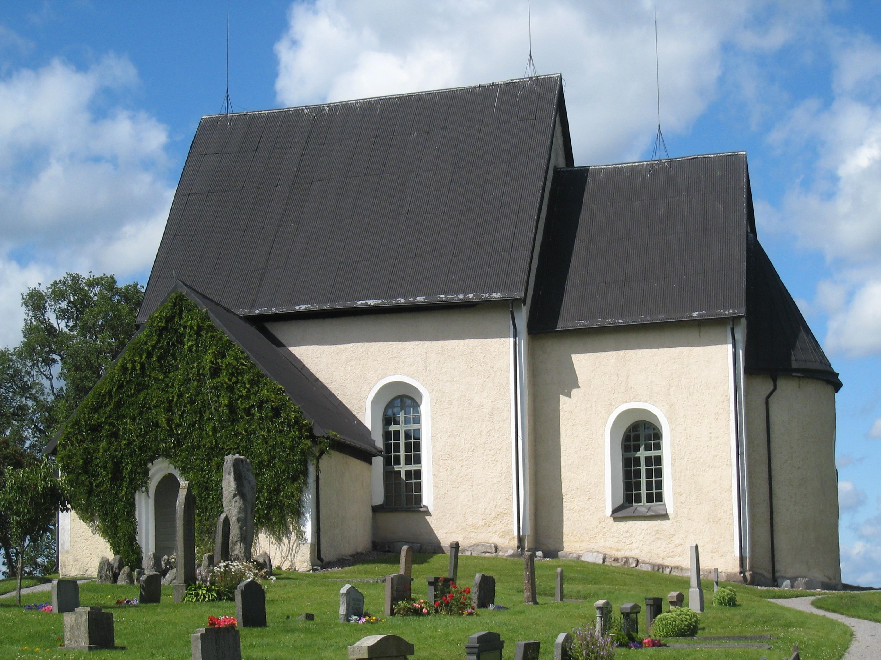 Markim church, Vallentuna, Sweden